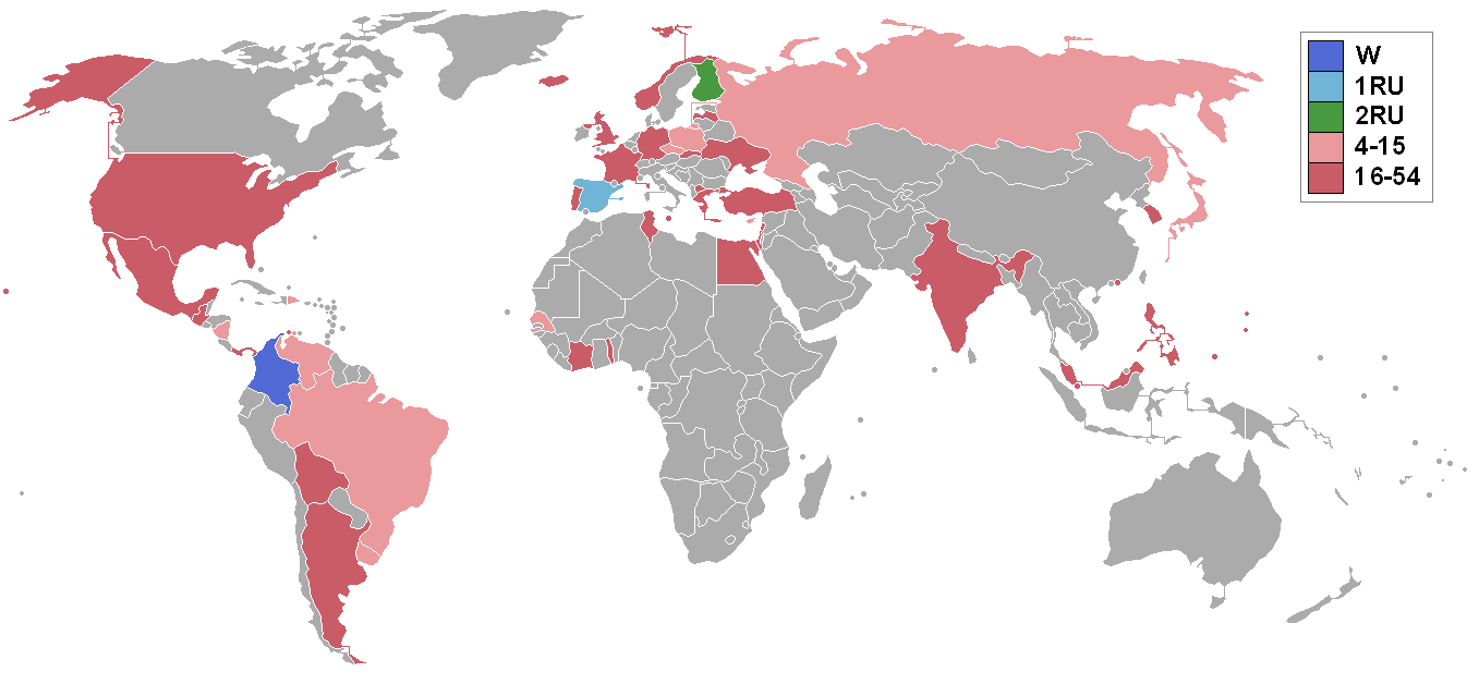 miss international 1999 results map